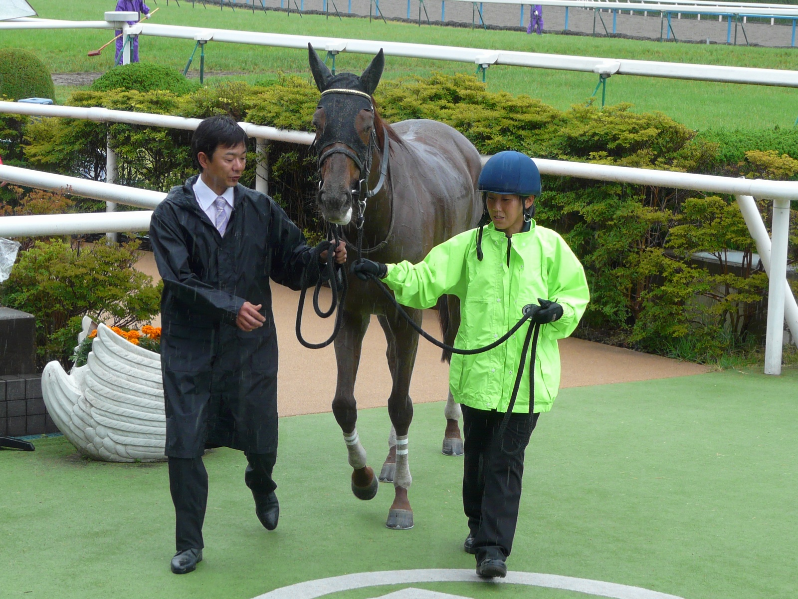 Miracle_Legend20100613